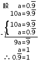 Explain 0.(9)=1 in Chinese.